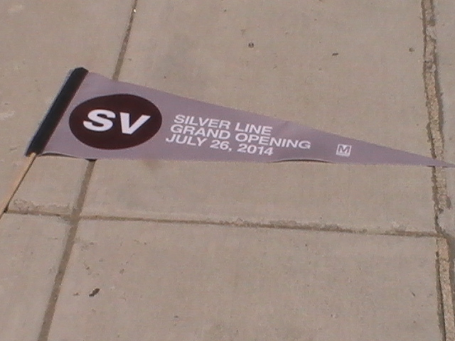 Pennants given away by WMATA to celebrate the opening of the Silver Line metro, July 26, 2014.